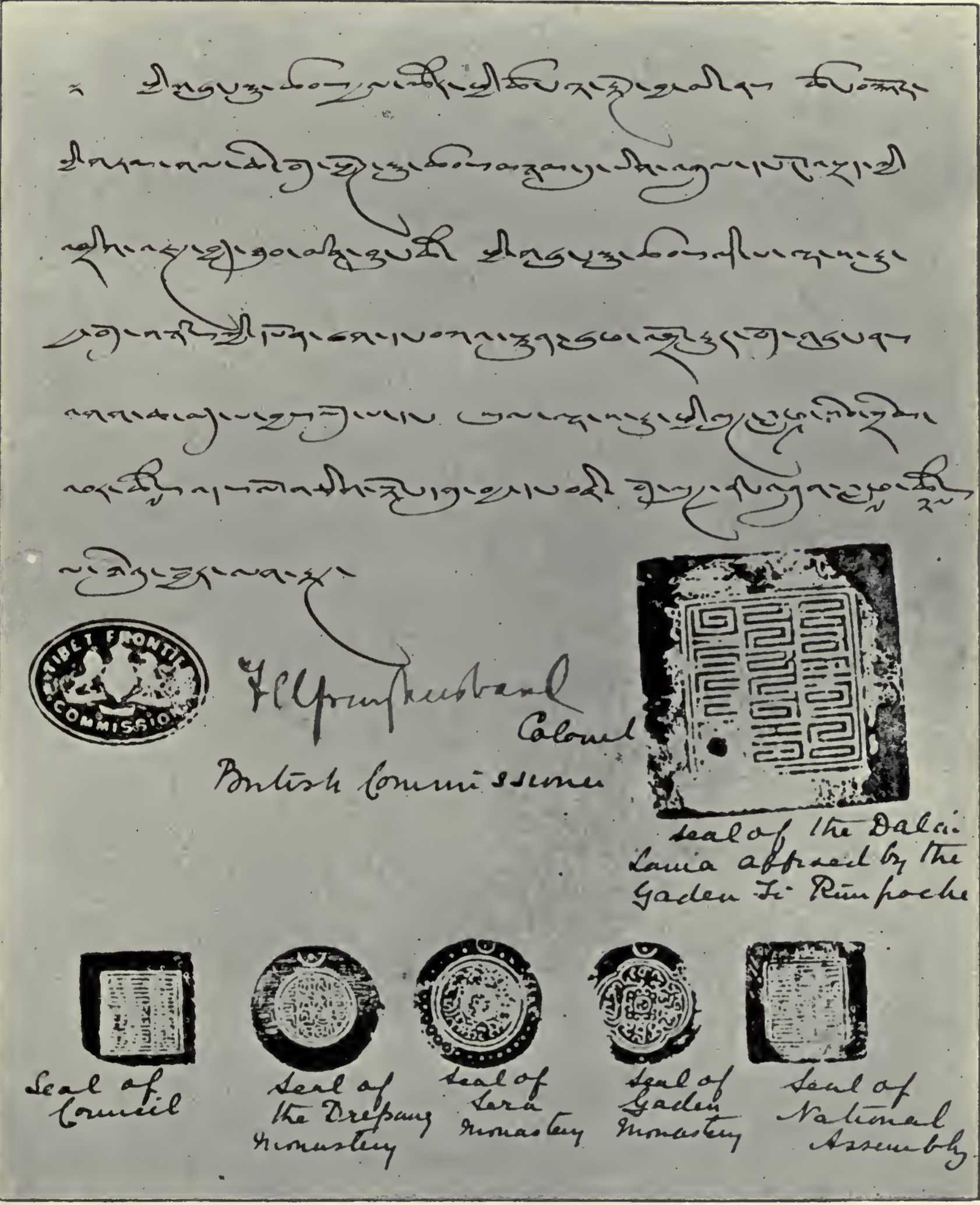 Seal affixed to Treaty of Lhasa (1904). The seals shown included British Thibet Frontier Commission, British Commissioner Francis Edward Younghusband, the Dalai Lama, Council, Drepung Monastery, Sera Monastery, Gaden Monastery, and Tibetan National Assembly.